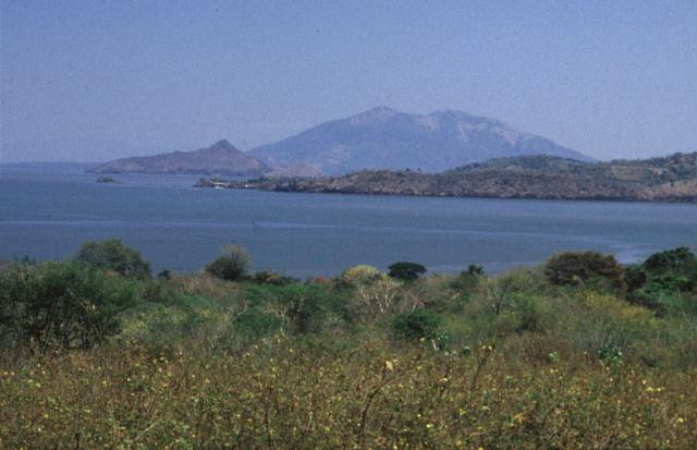 Zacate Grande Island, seen here from Punta el Chiquirín at the eastern tip of El Salvador.